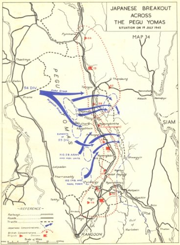 Map of the Japanese Breakout across the Pegu Yomas in 1945